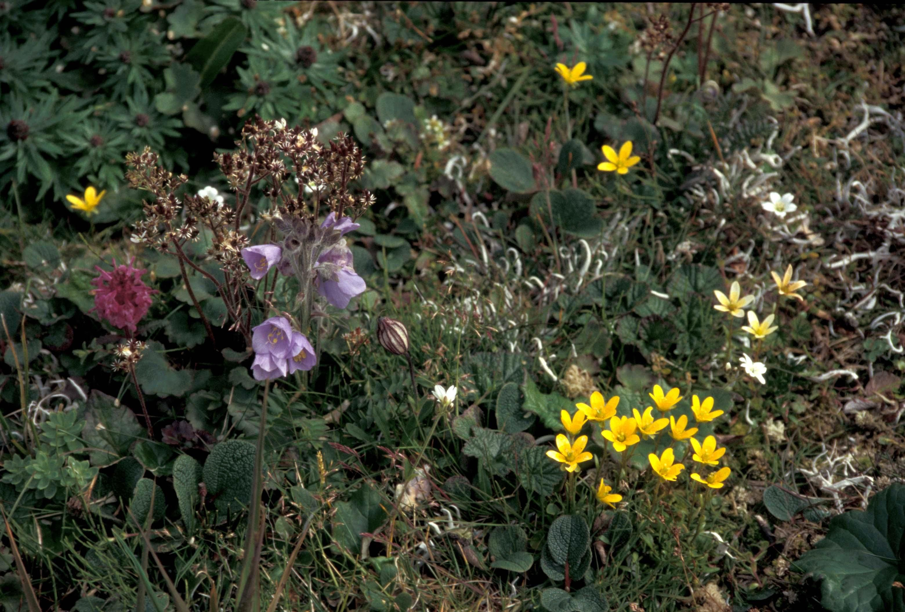 Image title: Hall island wildflowers Image from Public domain images website